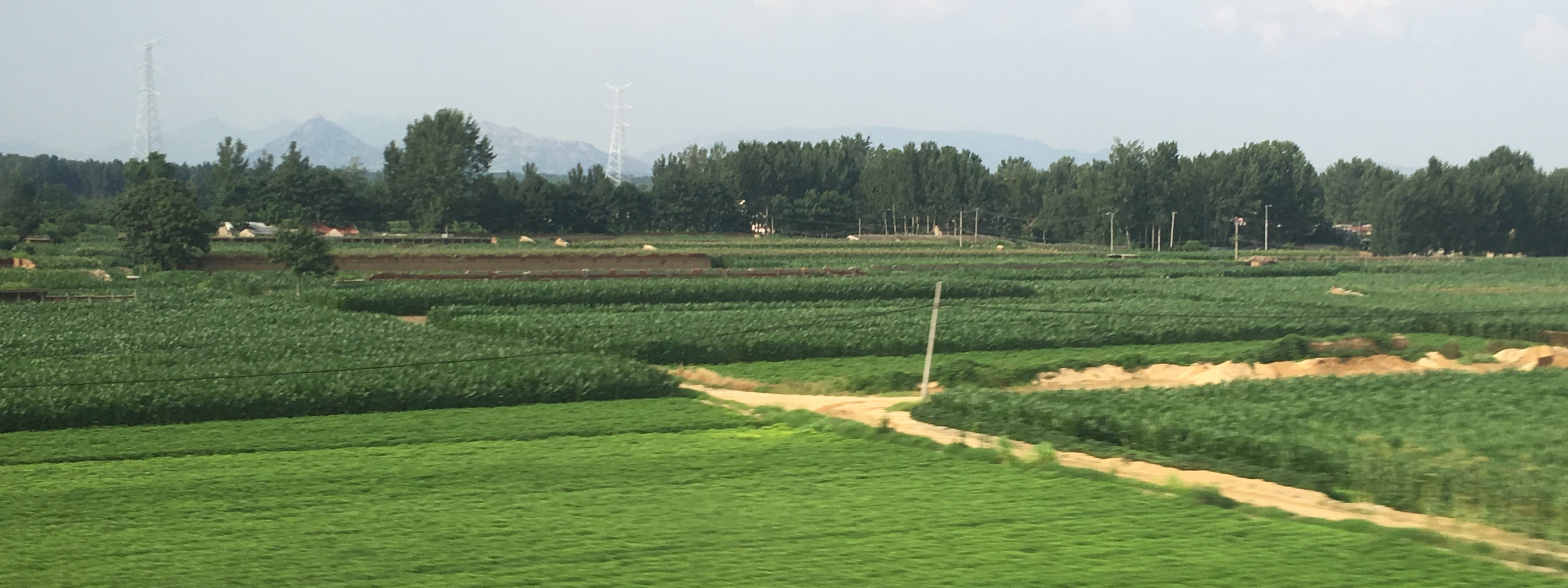 Image of the Dongshahe Commune (Dongshahezhen) in the District of Tengzhou, in Zaozhuang prefecture of Shandong province (China).